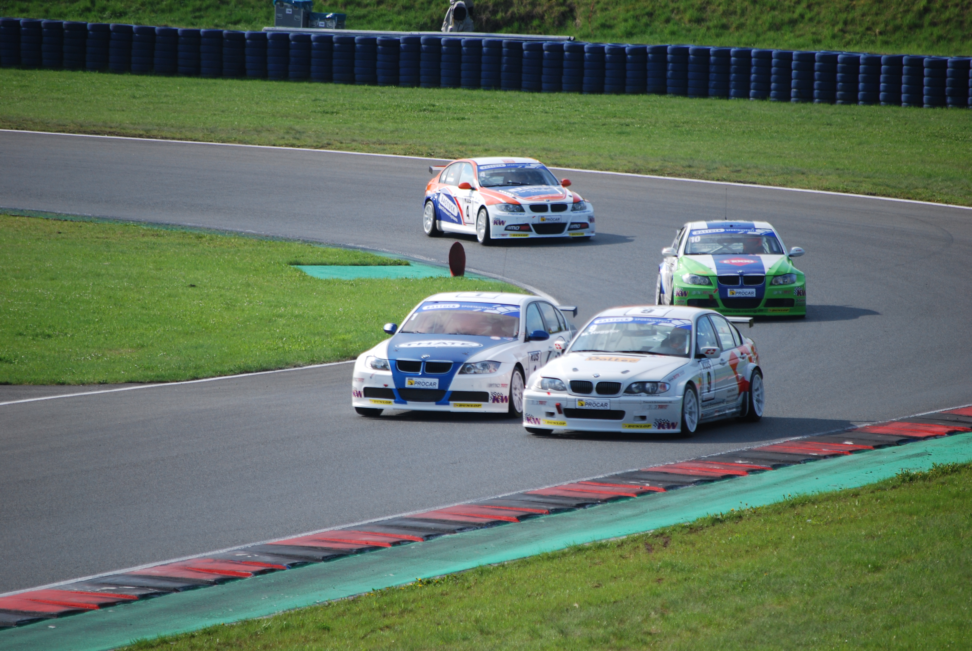 ADAC Procar Race 1 - #1 Jens Weimann (l.) and #9 Markus Huggler (r.)